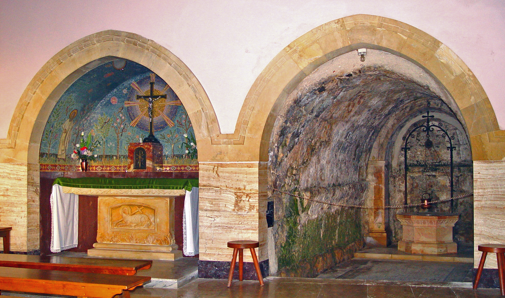 View of the Grotto in the Church of the Visitation (Ein Karem, Israel)